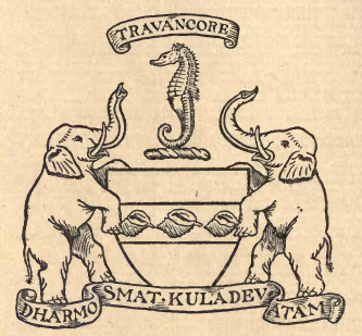 Coat of Arms of the Indian princely state of Travancore